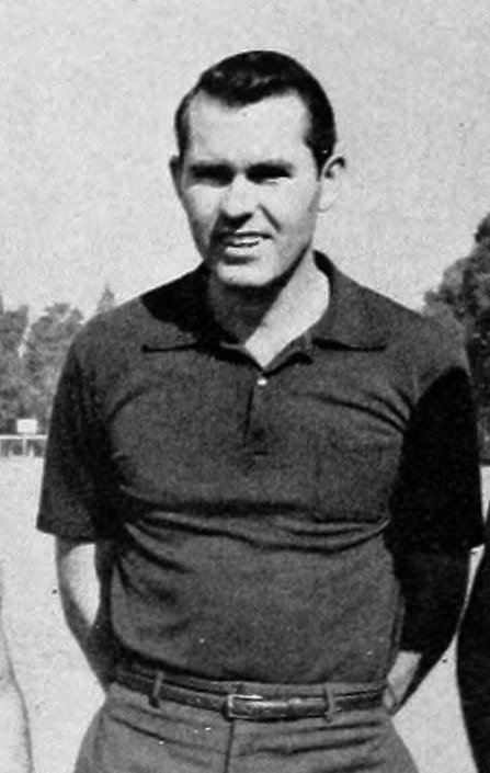 UCLA cross country coach Craig Dixon